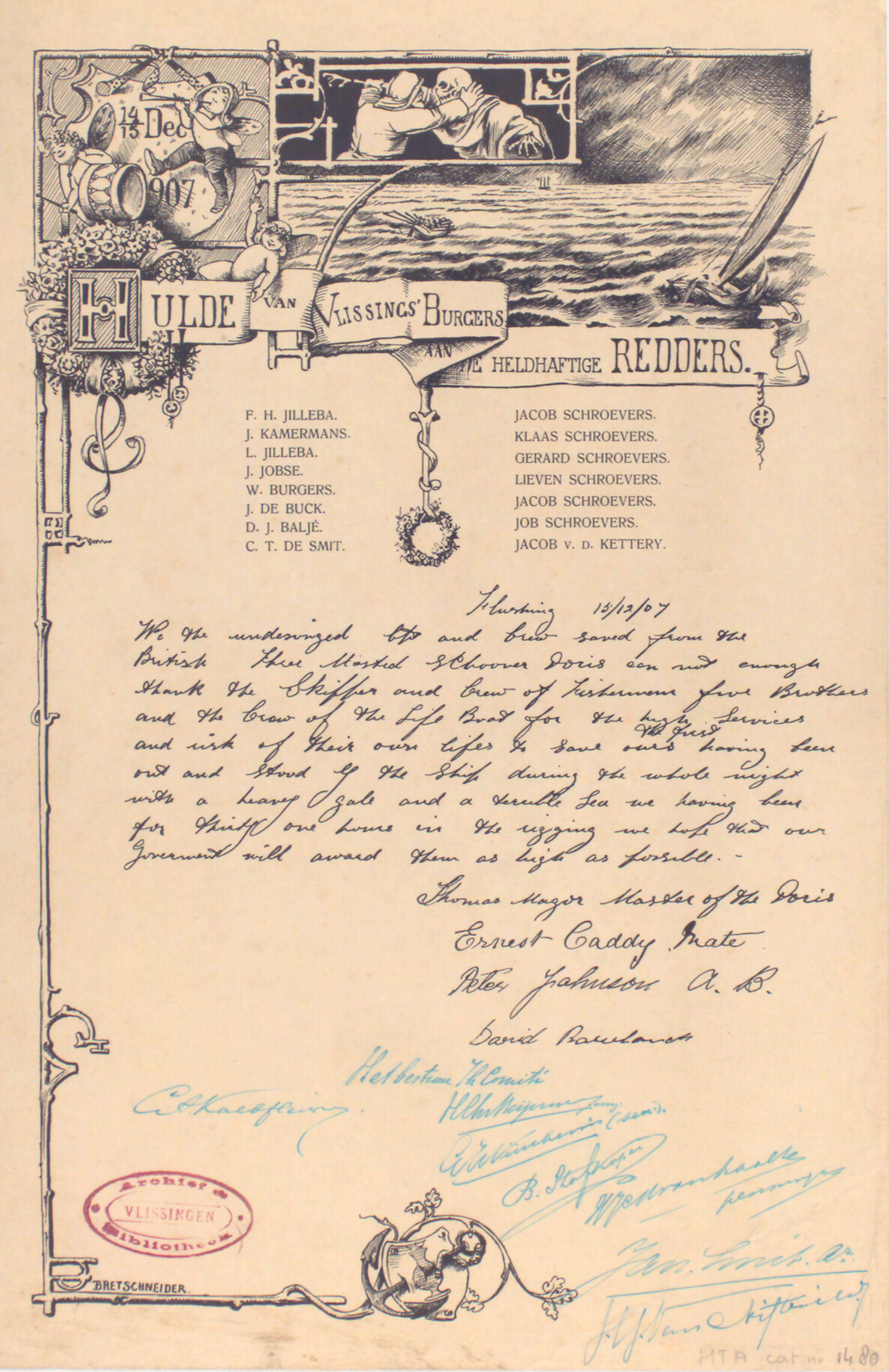 Tribute to the people of Flushing heroic rescuers